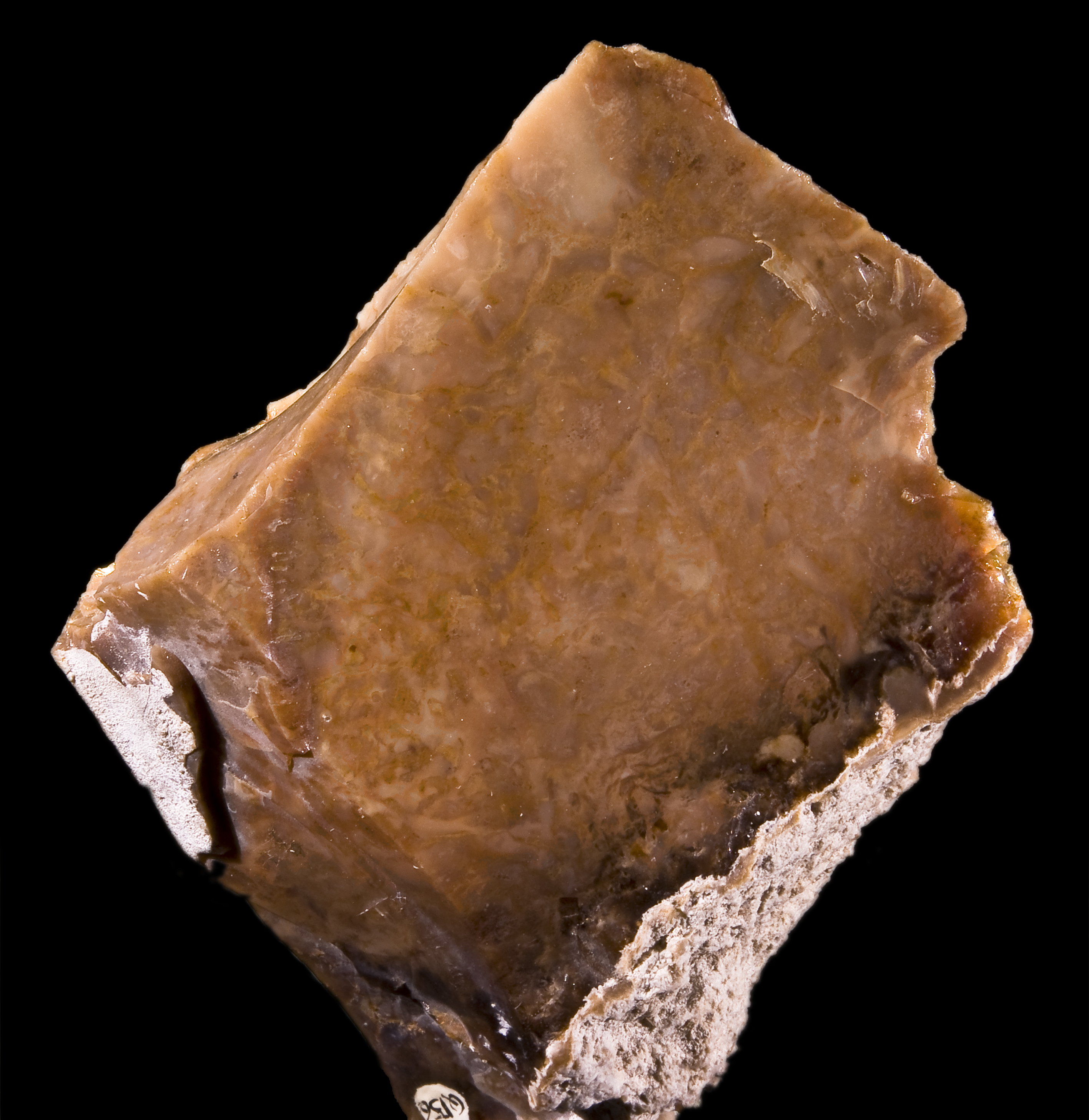 Menilite (Opal-AG) Locality : Plateau de Merdogne, Puy-de-Dôme, Auvergne France Size : 9x6.8x4 cm